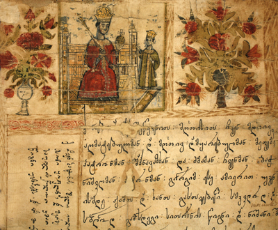 This media file needs to be cleaned up, because: missing english description. For help, see Commons:Media for cleanup.